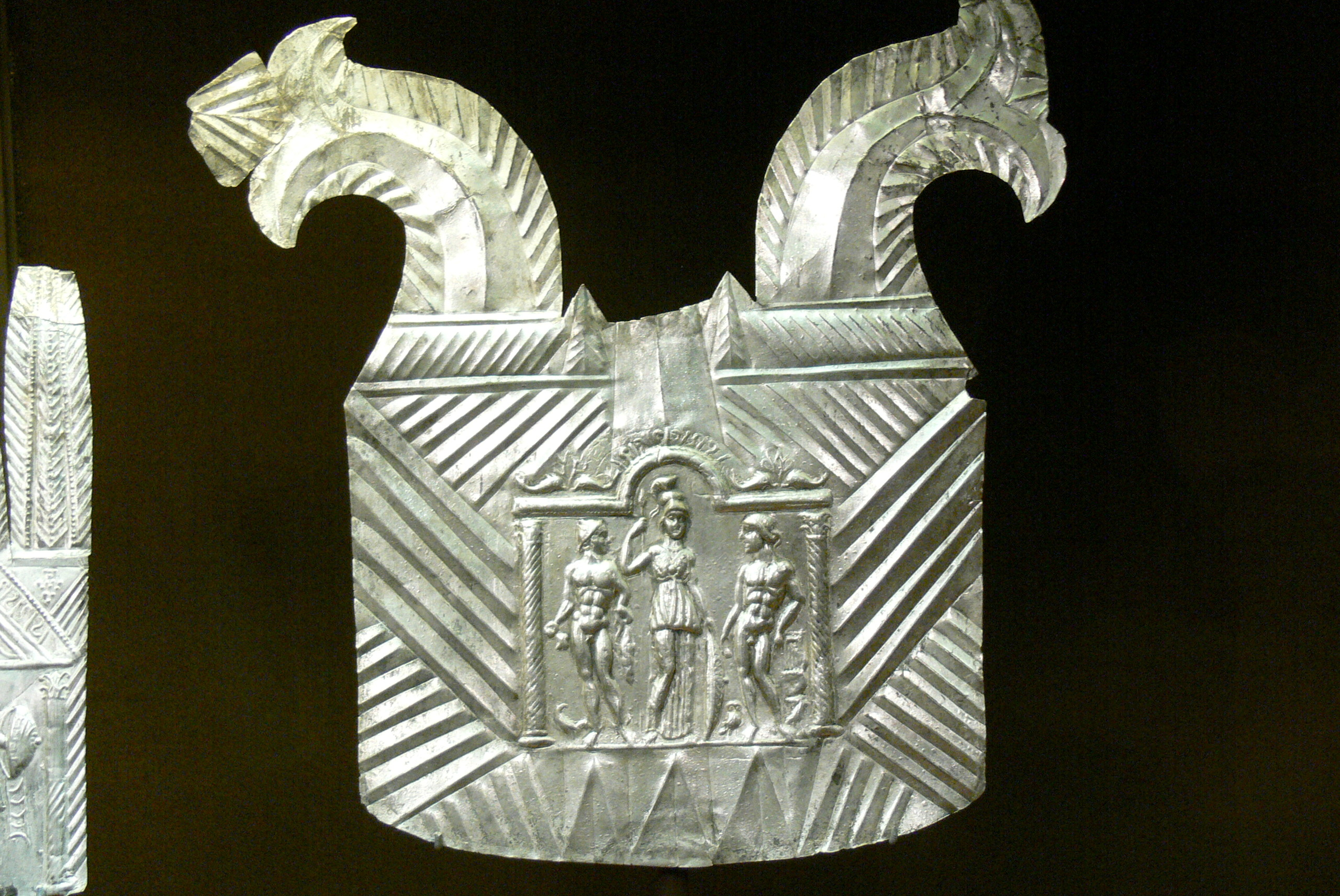 Weißenburg, Bavaria. Roman Museum: Silver votive plaque for a triad of Mercurius, Minerva, and Apollo (2nd/3rd century AD).